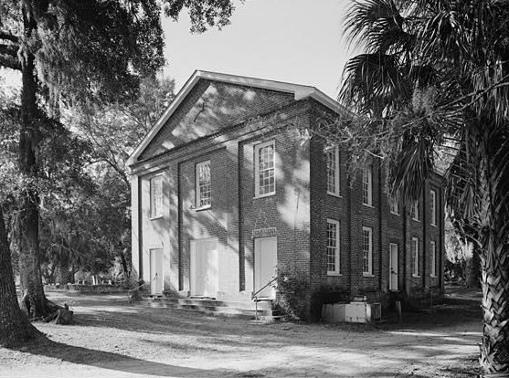 Brick Church, Penn School (Beaufort County, South Carolina) (cropped)